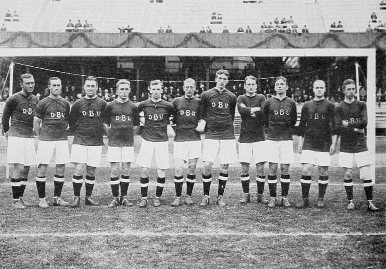 Denmark national football team at the 1912 Summer Olympics. From left to right: Olsen, S. Nielsen, H. Hansen, Berth, P. Nielsen, S. Hansen, Middelboe, Buchwald, O. Nielsen, Jørgensen, Wolfhagen.